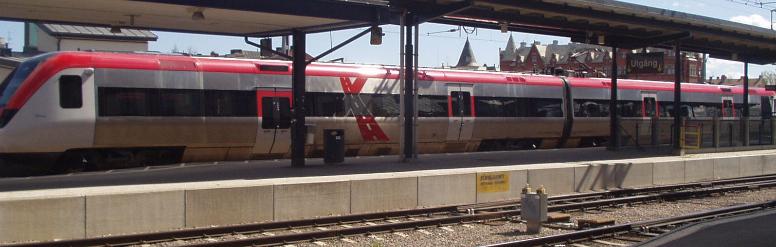 X-Tåget, a regional train from Länstrafiken i Gävleborg (X-Trafik), Sweden. The train stands ready for departure at the Gävle Central Station. In a few minutes it will leave towards Sundsvall.